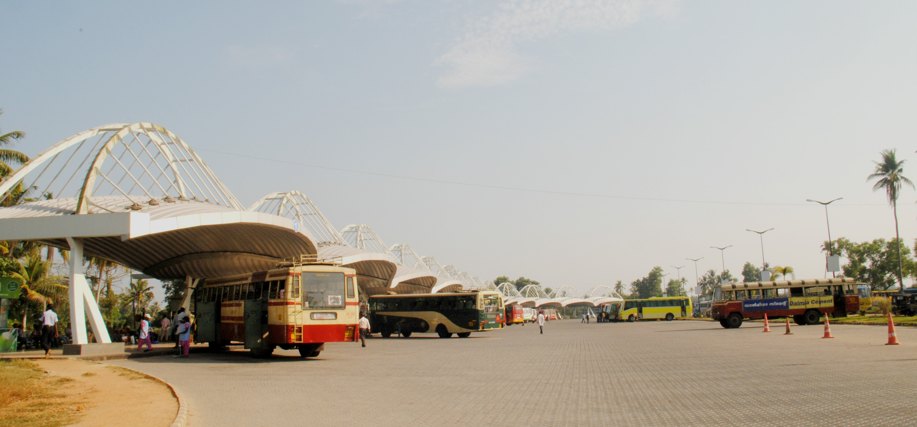 A view of Vyttile Mobilty Hub